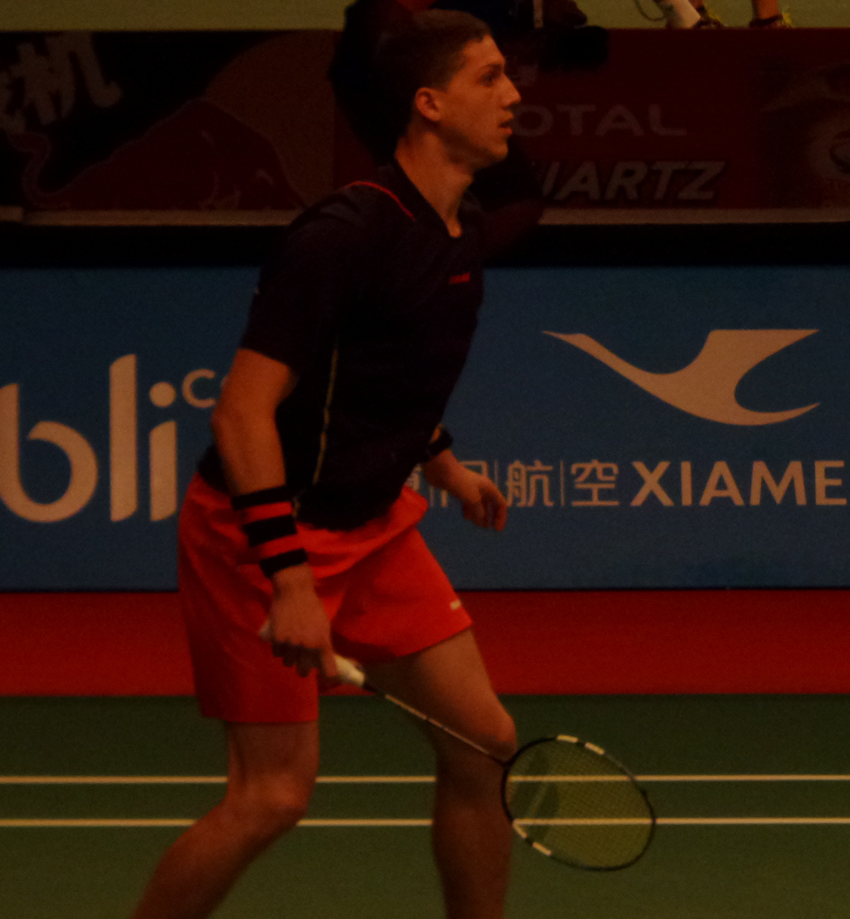 Artem Pochtarev in action during Day 2 of the 2015 BWF World Championships